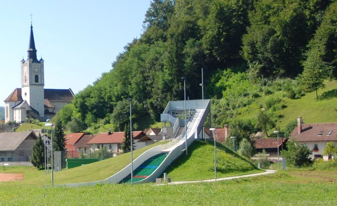 The ski jumping hill in Mirna. To the left in the background, the St. John the Baptist's Church. Mirna, Slovenia.